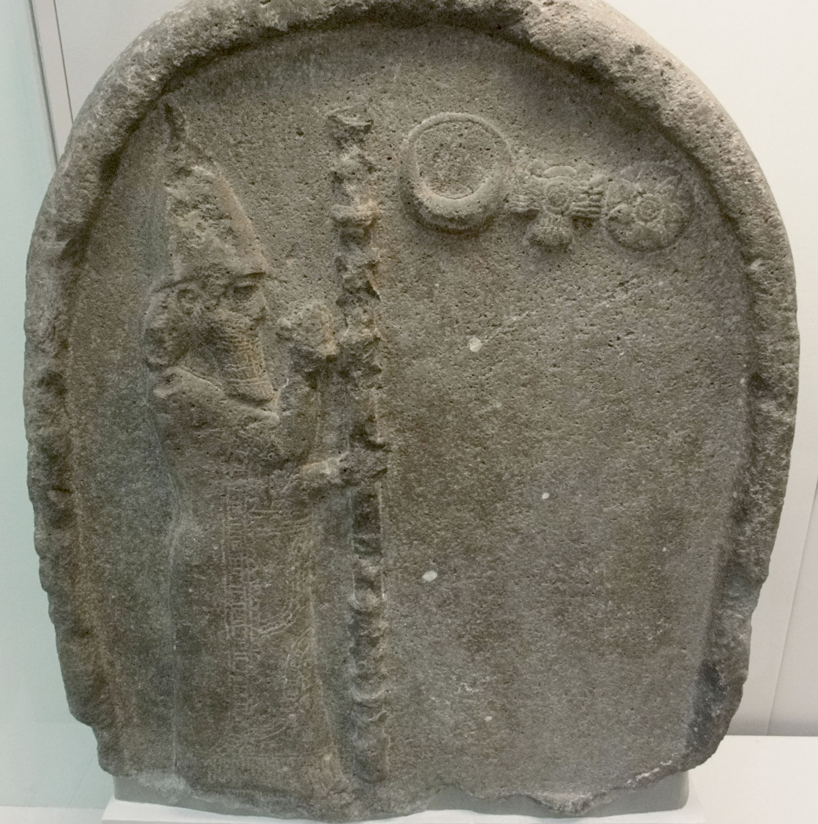 Basalt stela of Nabonidus.